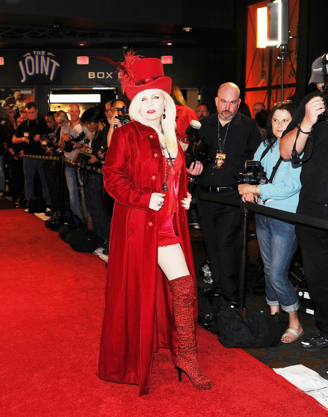 Sally Steele on the Red Carpet of the Vegas Rocks! Magazine Music Awards 2012